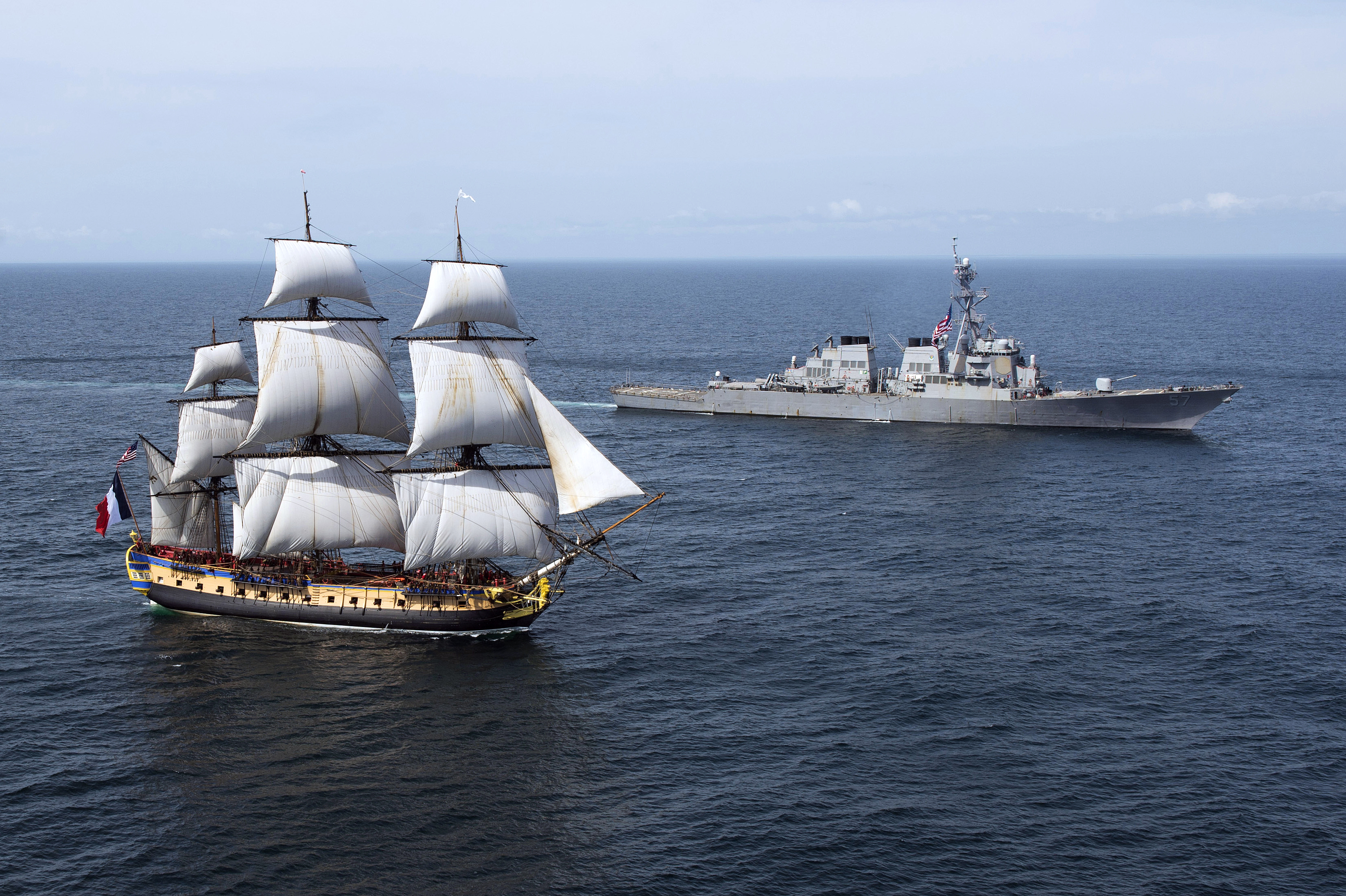 The Arleigh Burke-class guided-missile destroyer USS Mitscher (DDG 57), right, provides a warm welcome to the French tall ship replica Hermione in the vicinity of the Battle of Virginia Capes off the East Coast of the United States. The original Hermione brought French General Marquis de Lafayette to America in 1780 to inform Continental Army General George Washington that a French army was headed for the United States to assist in the war effort. The symbolic return of the Hermione will pay homage to Lafayette and the Franco-American alliance that brought victory at the Battle of Yorktown in 1781. The Hermione will visit Yorktown (Virginia) on 5 June and then continue up the East Coast visiting cities of Franco-American historical significance.